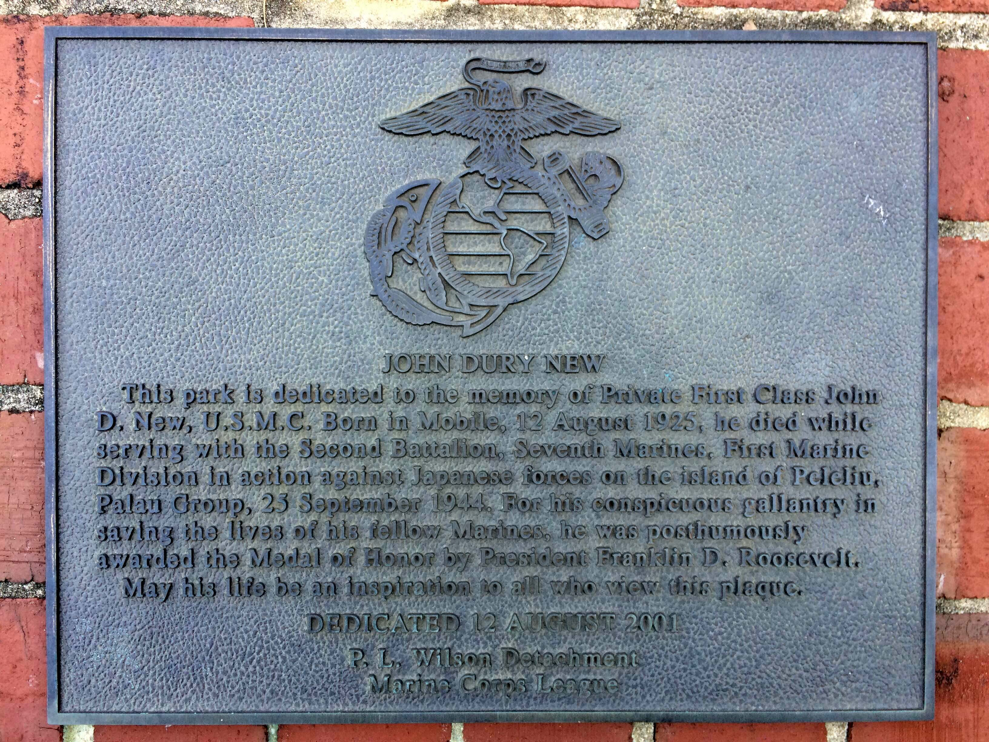 Photograph of Memorial Plaque for PFC John D. New, USMC, in Medal of Honor Park, Mobile, Alabama (30°39'26.05"N, 88°11'2.22"W)